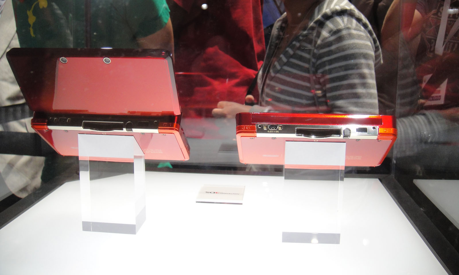 Red Nintendo 3DS on display in Nintendo booth at the 2010 Electronic Entertainment Expo, back view